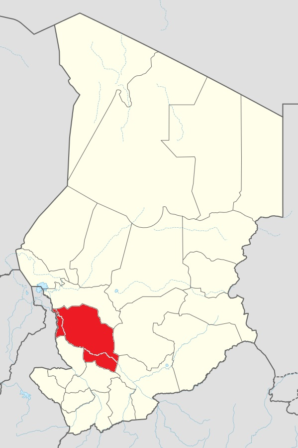 updated map of Chari-Bagumi region